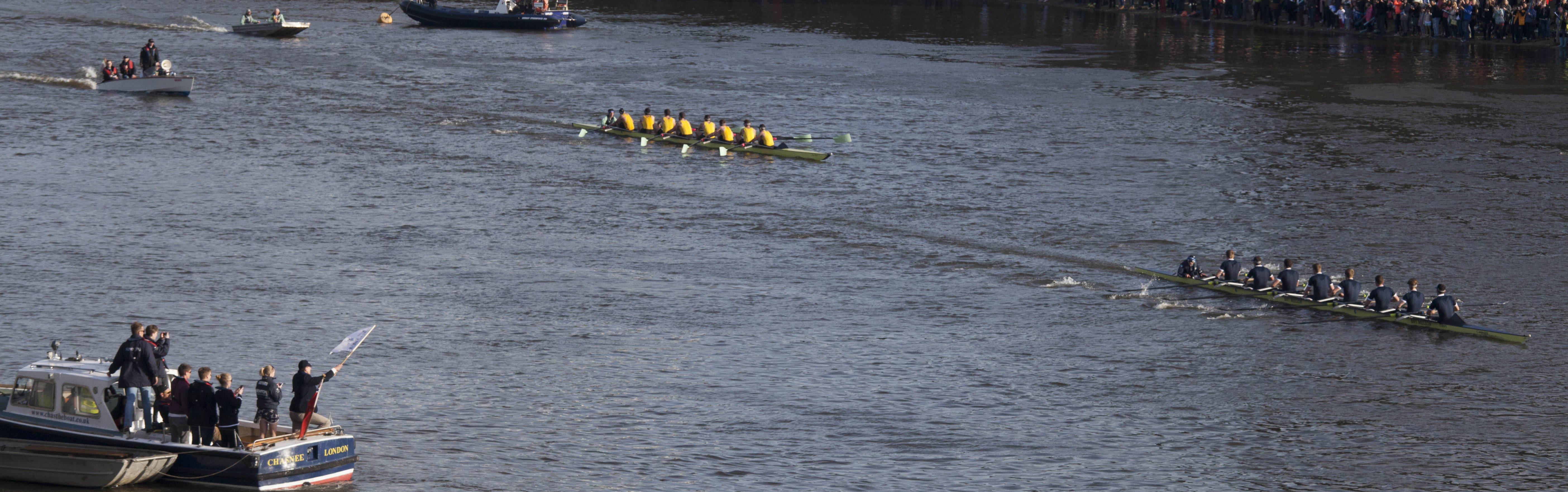 Image of Oxford & Cambridge Boat Races 2015, illustrating Isis (Oxford) and Goldie (Cambridge) approaching the finish, seen from the North (Middlesex) end of Chiswick Bridge.